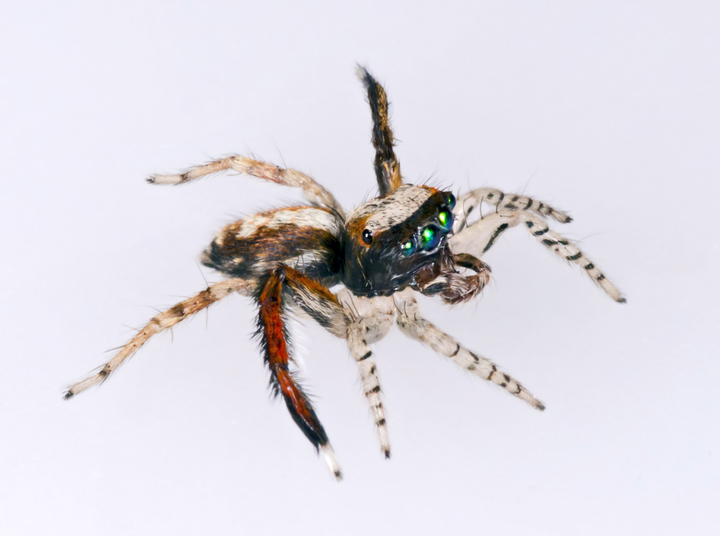 Saitis barbipes. Side view. Living animal. Size 3mm.